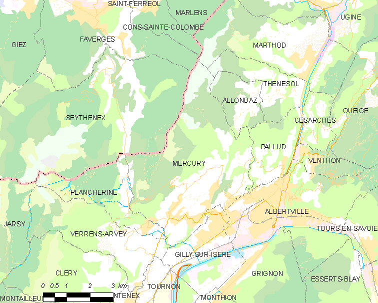 Map of French municipality